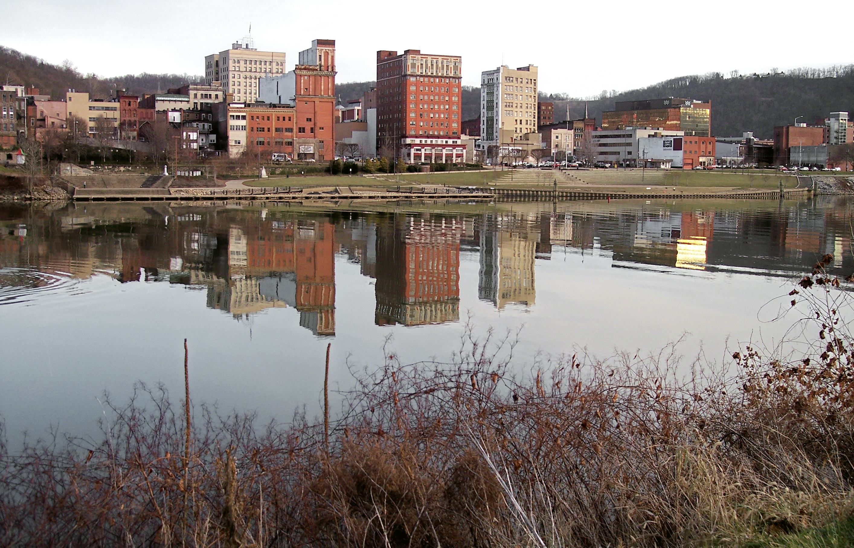 Downtown Wheeling, West Virginia and the Ohio River as viewed from Wheeling Island